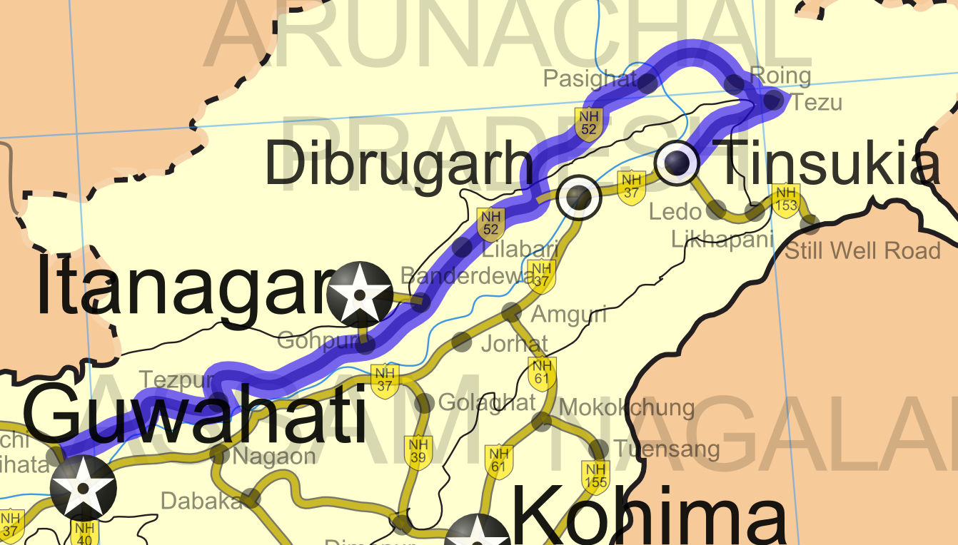 National Highway 52 in India